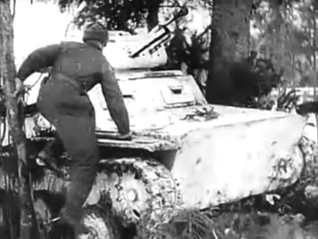 Still from Moscow Strikes Back, Soviet documentary of the Battle of Moscow. Directed by Ilya Kopalin. 1 of 4 films to win the 1943 Academy Award for Best Documentary.